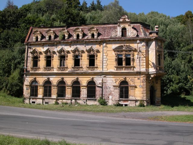 Bečov, the old Hotel Central